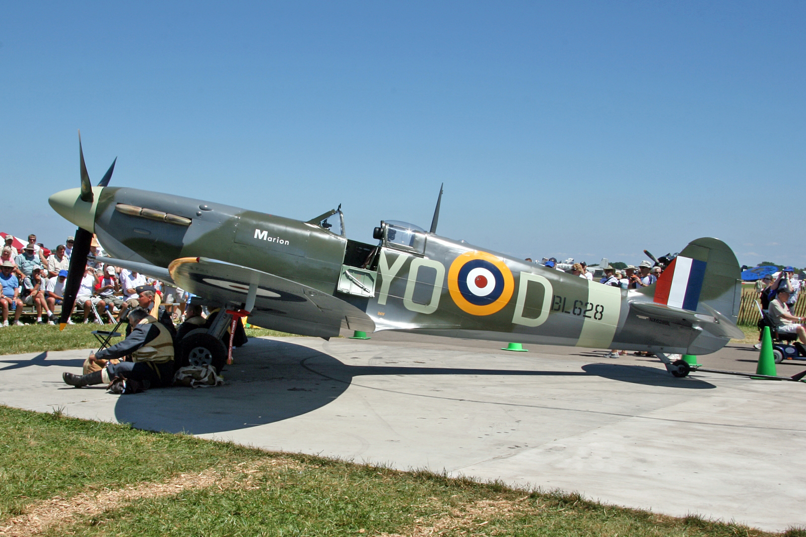 Spitfire Mk Vb BL628 "Marion", at the 2008 Oshkosh Air Show.